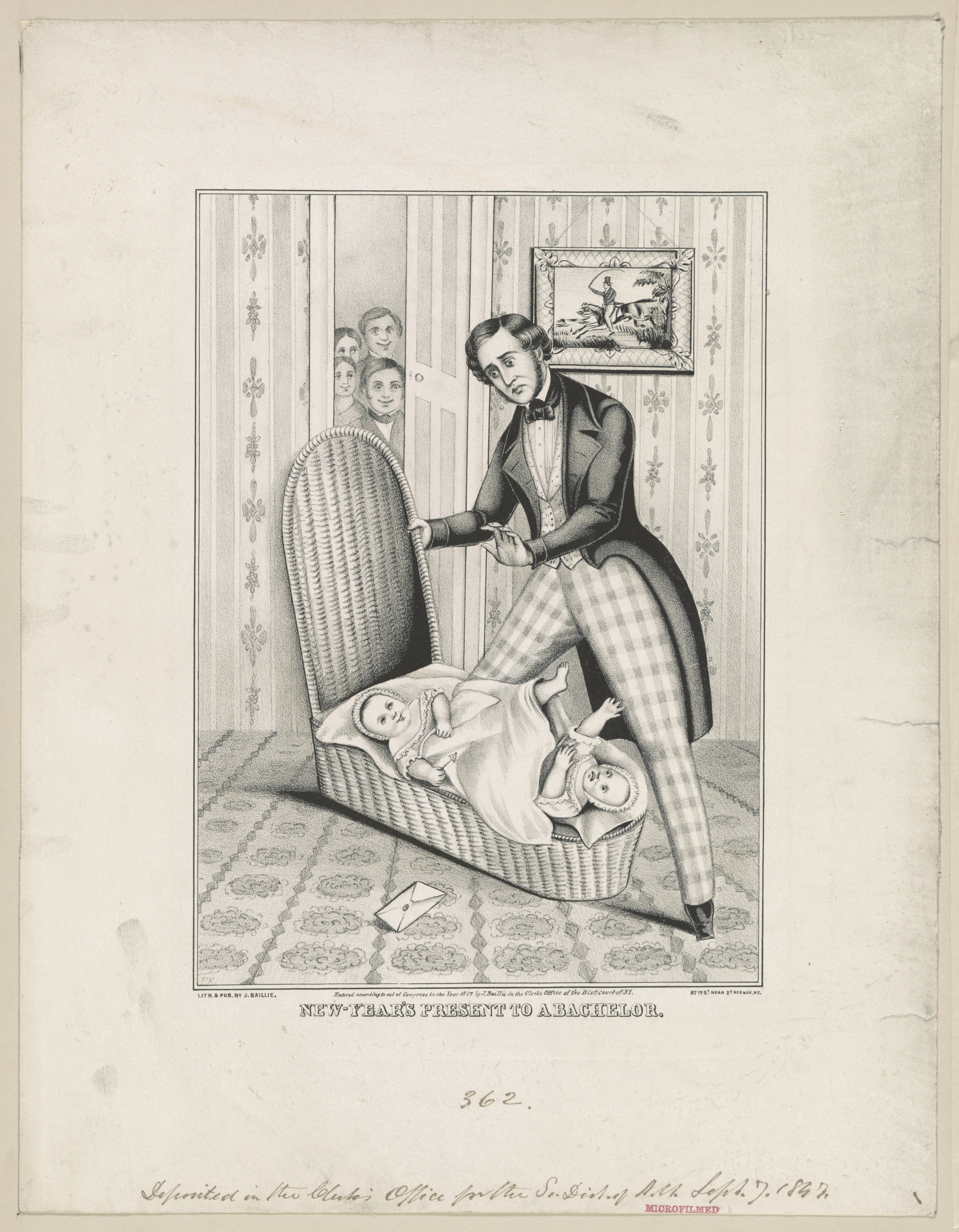 Title: New year's present to a bachelor Physical description: 1 print. Notes: Associated name on shelflist card: Baillie.; This record contains unverified data from PGA shelflist card.